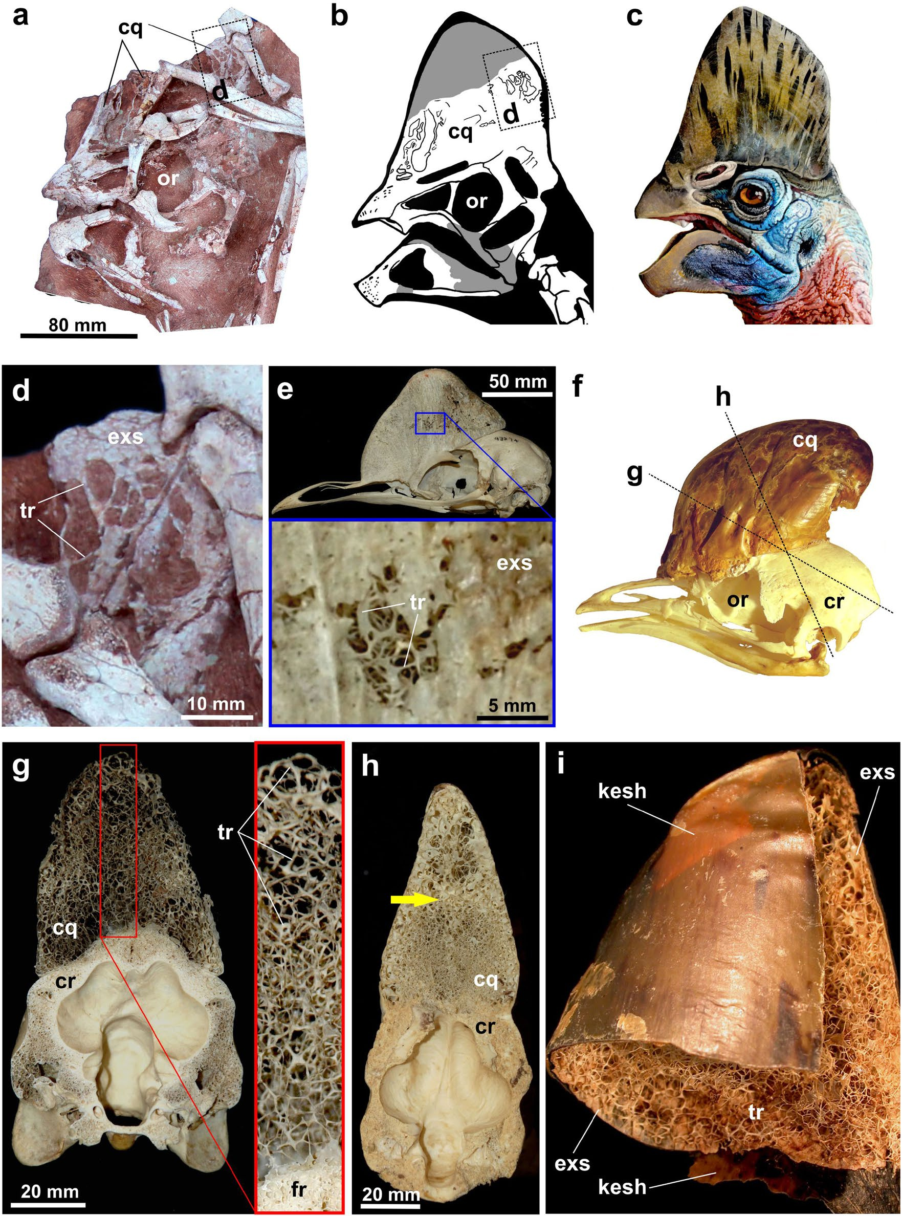 The cranial casque of Corythoraptor jacobsi and recent cassowaries. (a–c) the crested skull of Corythoraptor and head appearance restorations. (d) a close-up (see dotted rectangle in a and b) of eroded bony shell in the posterolateral casque of Corythoraptor. (e) the crested skull of the recent cassowary (Casuarius uniappendiculatus; Museum für Naturkunde in Berlin, Germany: MfN-ZMB 93274). (f) a keratinous helmet over the skull of the recent cassowary (unnumbered specimen of Casuarius casuarius from the osteological collections of ZOO Protivín, Czech Republic). (g,h) coronal cuts through the cassowary skull – (g) Casuarius casuarius MfN-ZMB 36820, (h) Casuarius casuarius: MfN-ZMB 36885 (see dotted lines in f); note transition in strut-like trabecular arrangement. (i) close-up to contact between keratinous and skeletal components of the casque in recent cassowary, unnumbered specimen of Casuarius sp. from the osteological collections of Field Museum of Natural History, Chicago, USA. Abbreviations: cq, casque; cr, cranium; exs, external surface; kesh, keratinous sheath; or, orbit; tr, trabeculae.